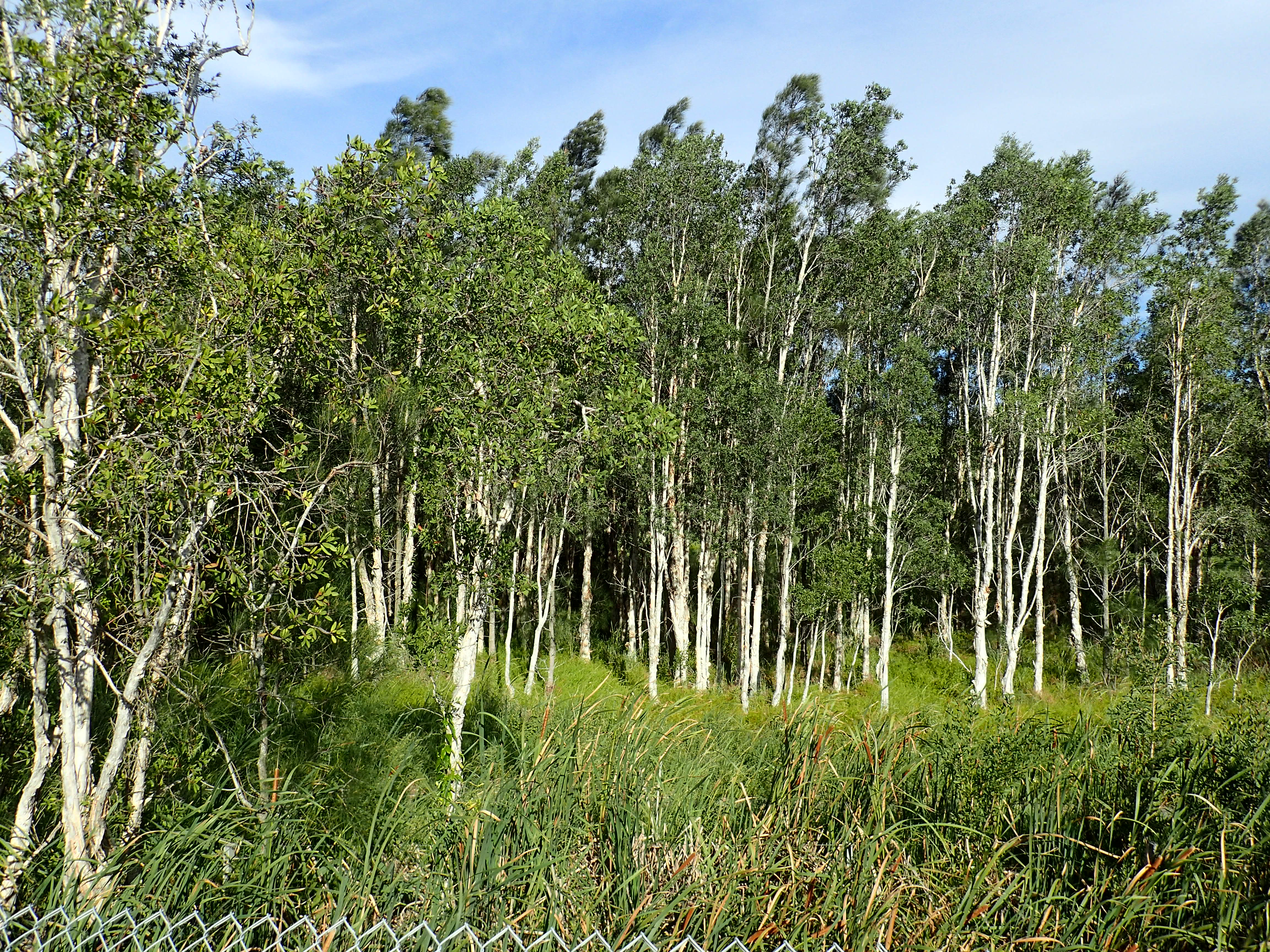 Melaleuca quinquenervia growing near the Pacific Highway at Woolgoolga